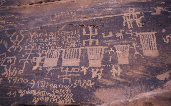 500 BC-Inscriptions of some musical instruments (Semsemeya) in Mount of Ekmh in Hejaz region .